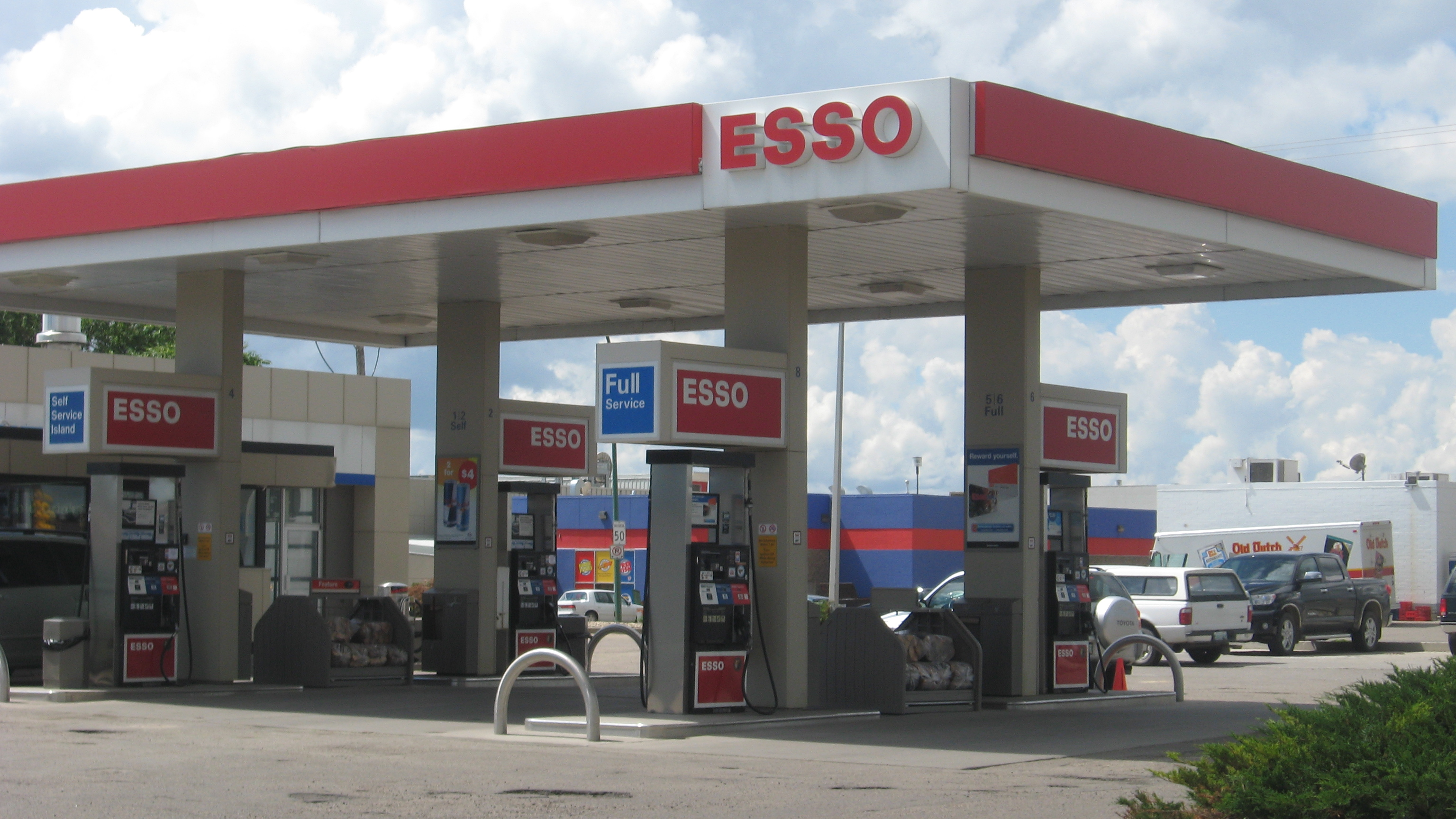 Example of what Canadians call a gasbar